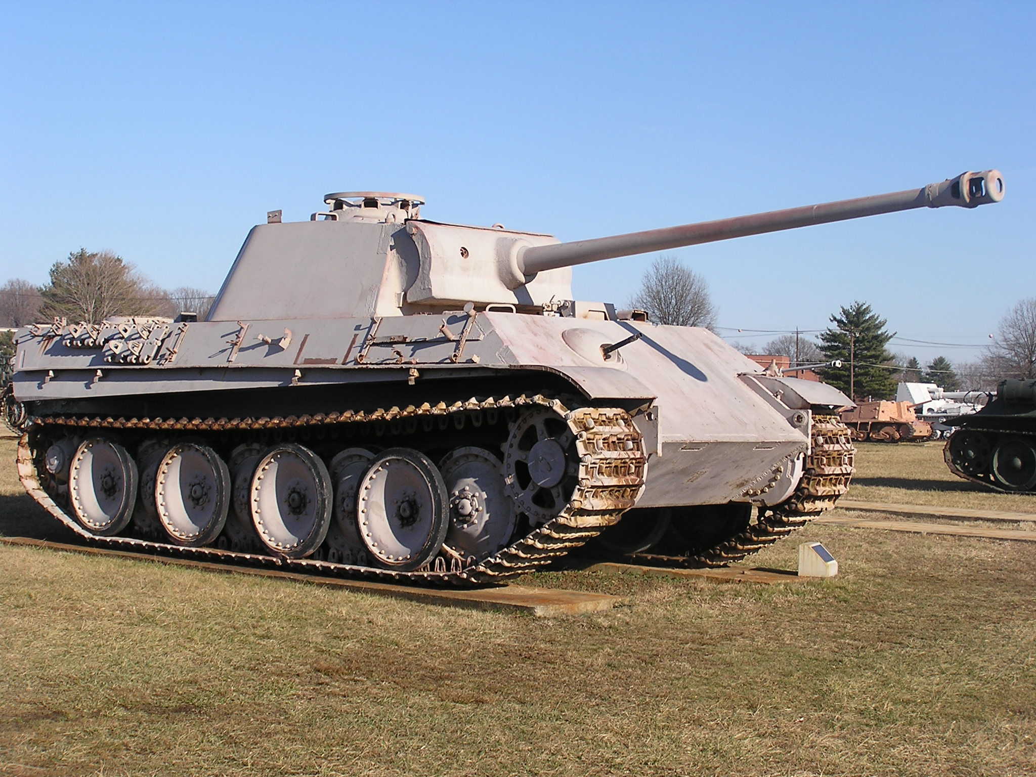 Taken at Aberdeen Proving Ground